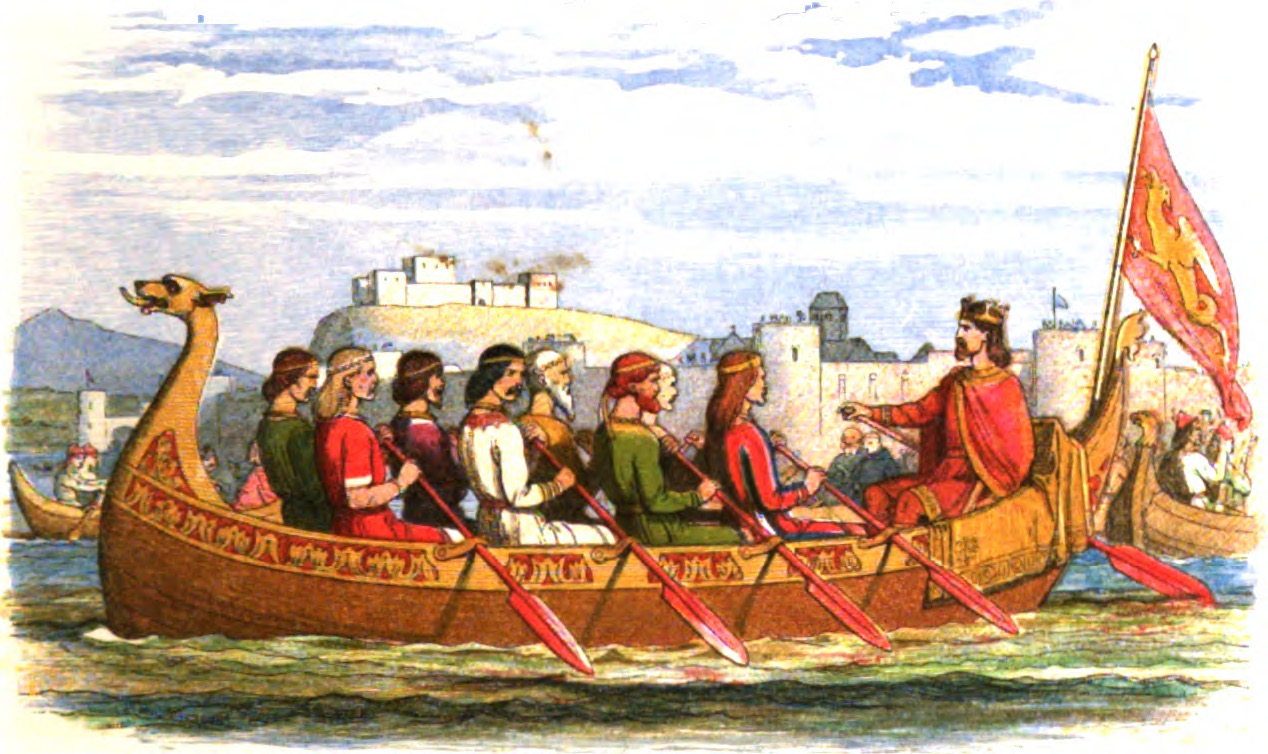 Edgar the Peaceful sits aboard a barge manned by eight kings, as it moves up the River Dee.